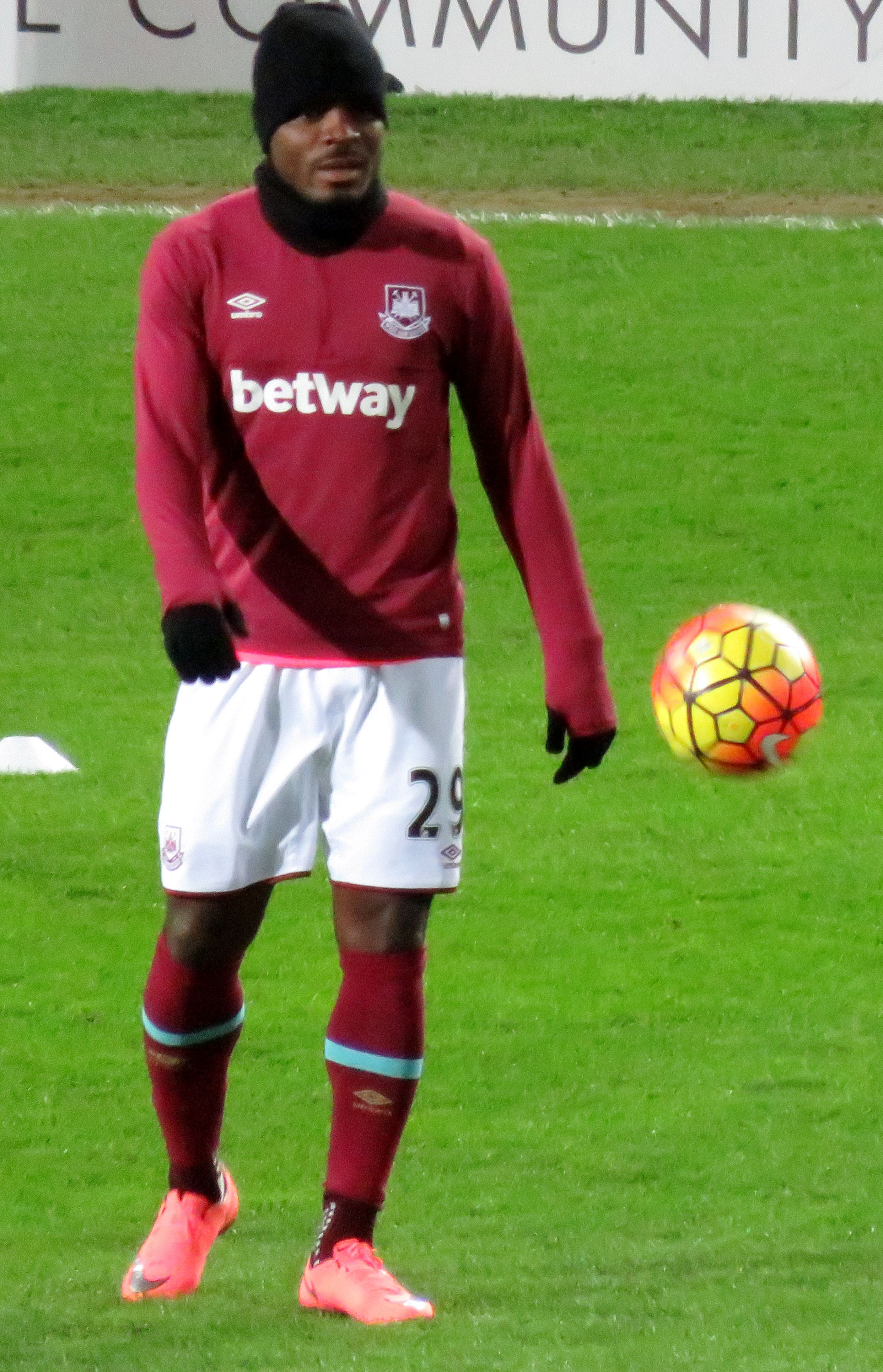 West Ham United player, Emmanuel Emenike warming-up before their Premier League game against Tottenham Hotspur at the Boleyn Ground